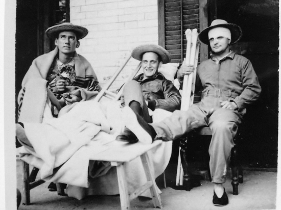 Crew of 40-2261 The Ruptured Duck treated in Enze Hospital, Taizhou after Doolittle Raid